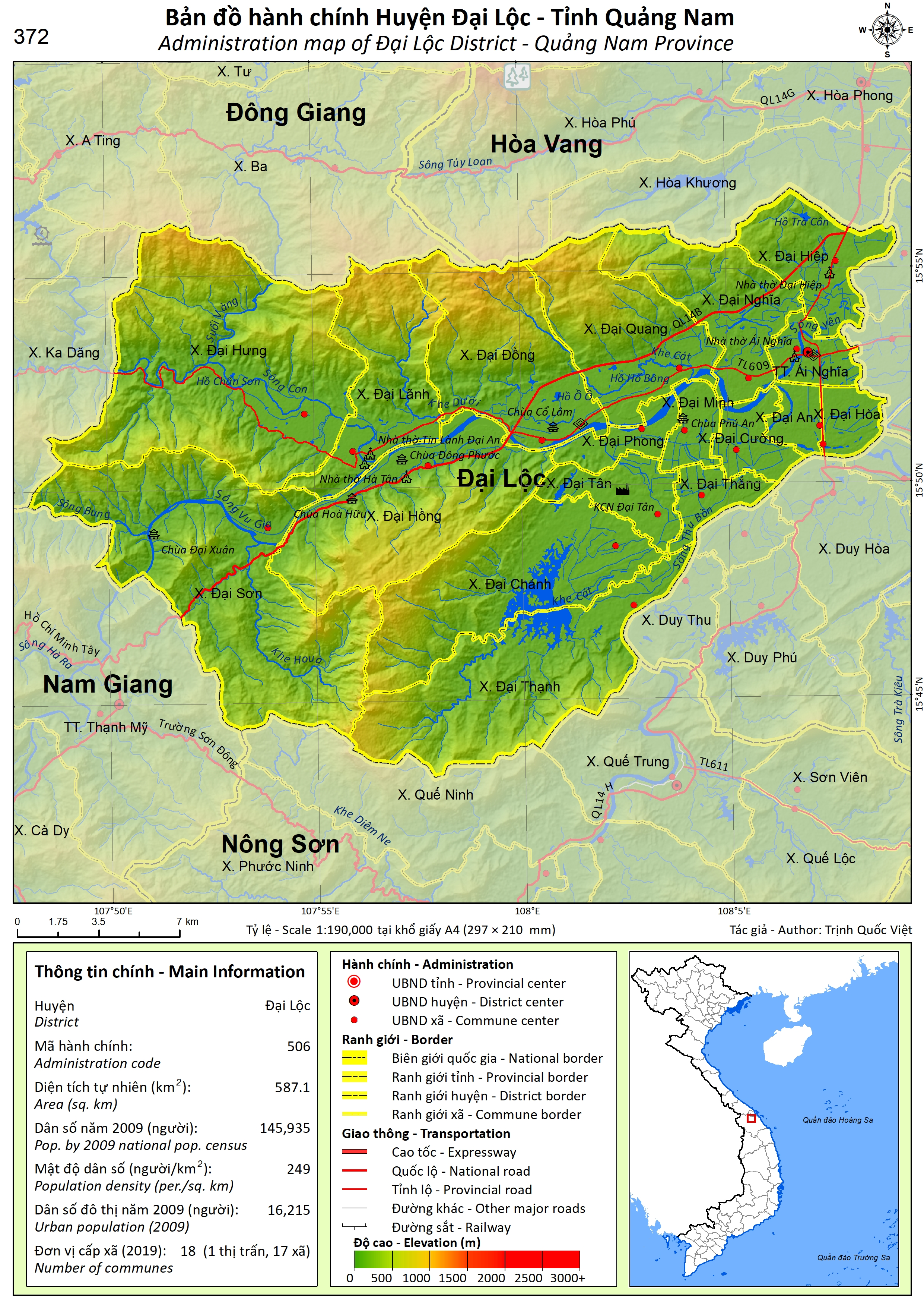 Administration map of Dai Loc District